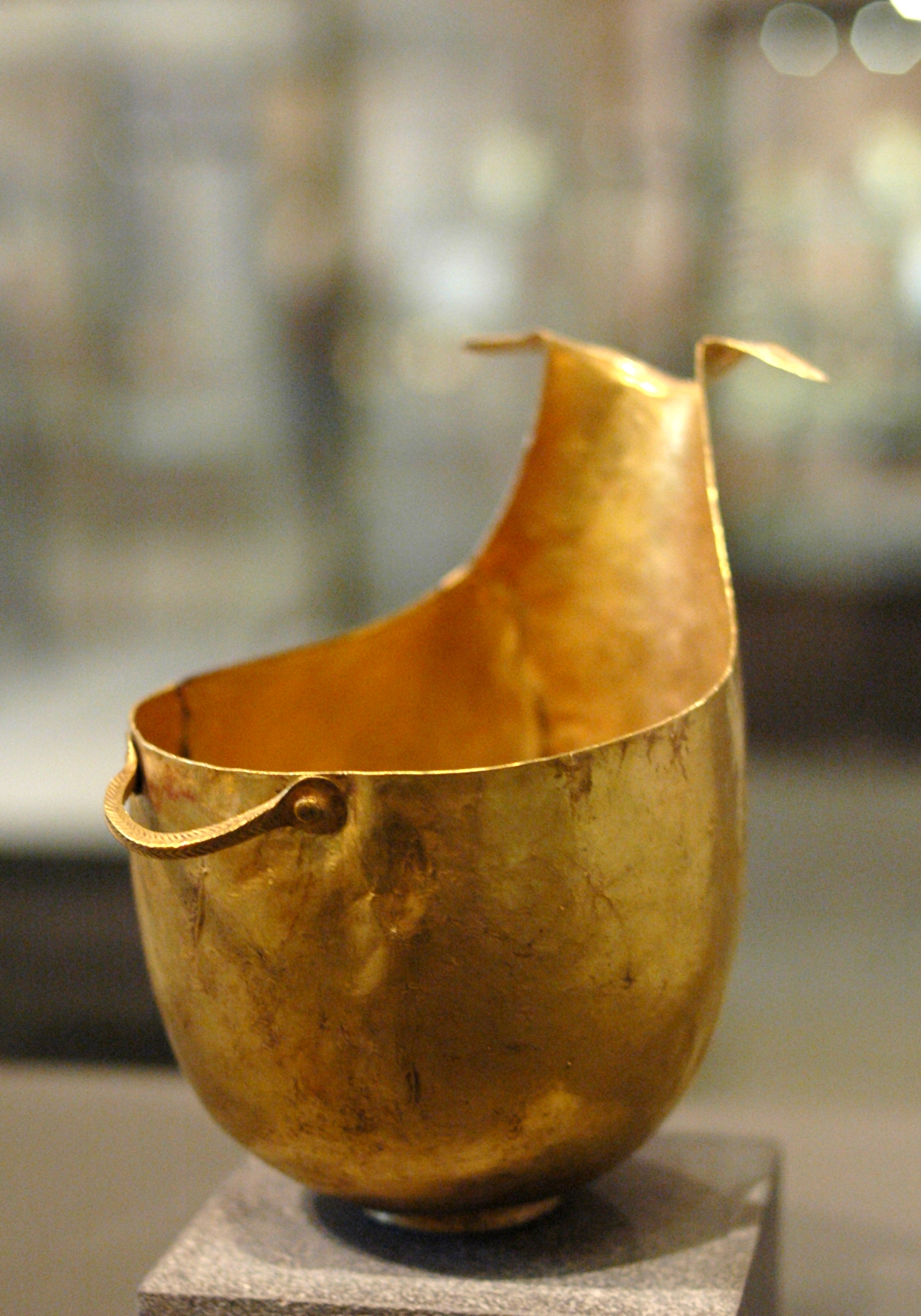 "Sauceboat" (deep pitcher with a single handle) from Heraia (Arcadia). Early Helladic III (ca. 2200 BC), hammered sheet gold and fastened handle.